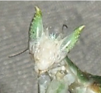 Head.